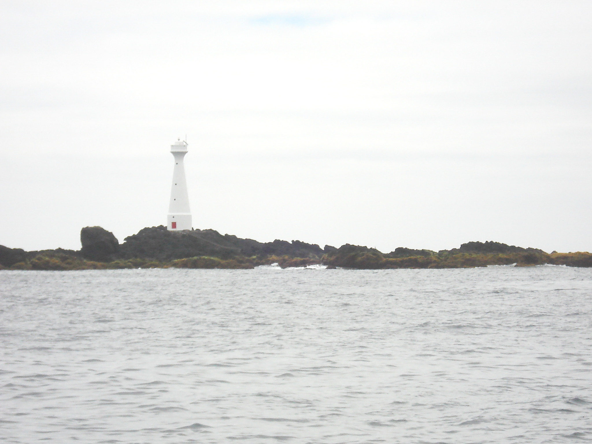 Image of "Formigão" Islet, with lighthouse, seen from a distance.